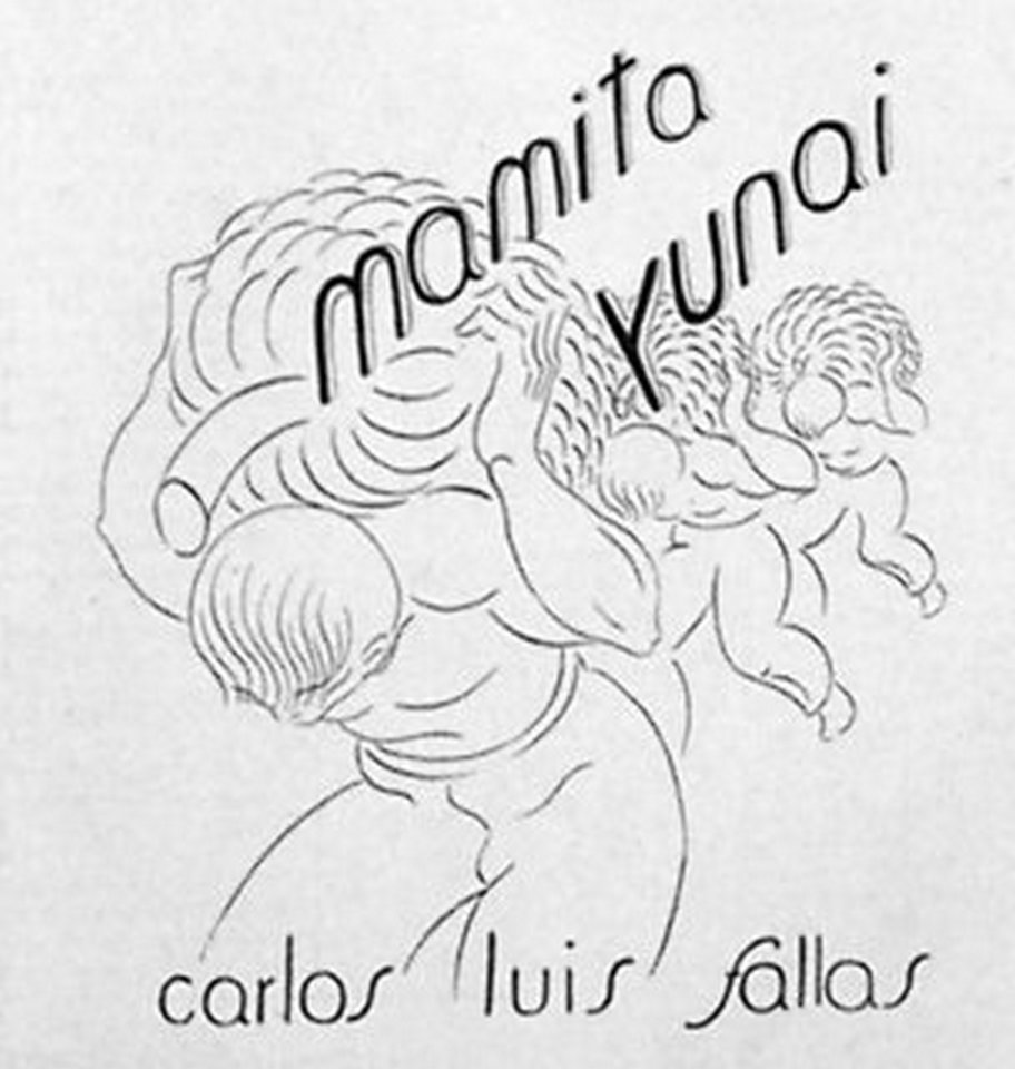 An advertising drawing of Carlos Luis Fallas's novel Mamita Yunai published in the newspaper Trabajo in 1941